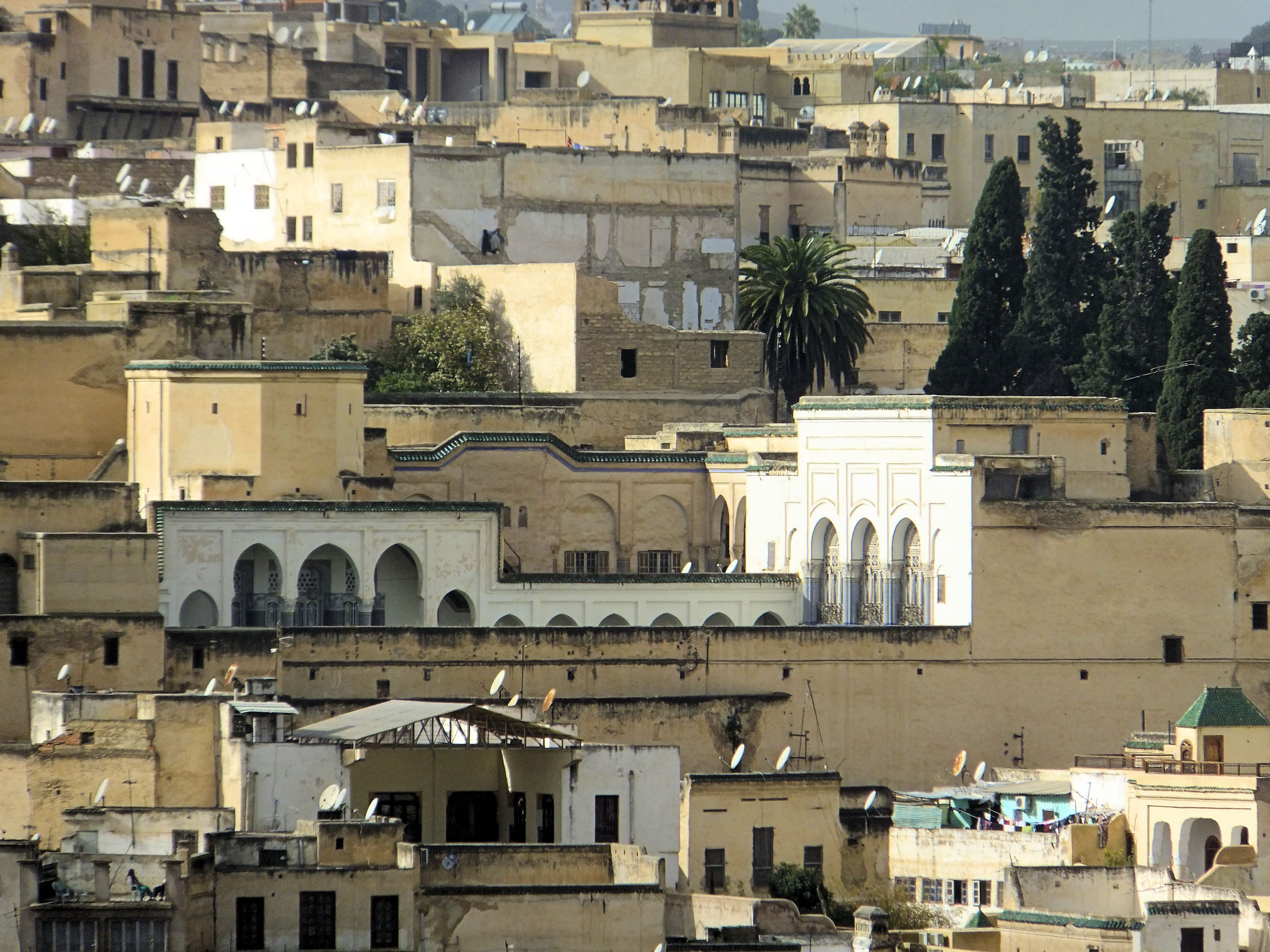 Dar Moqqri, seen from Borj Sud to the south.